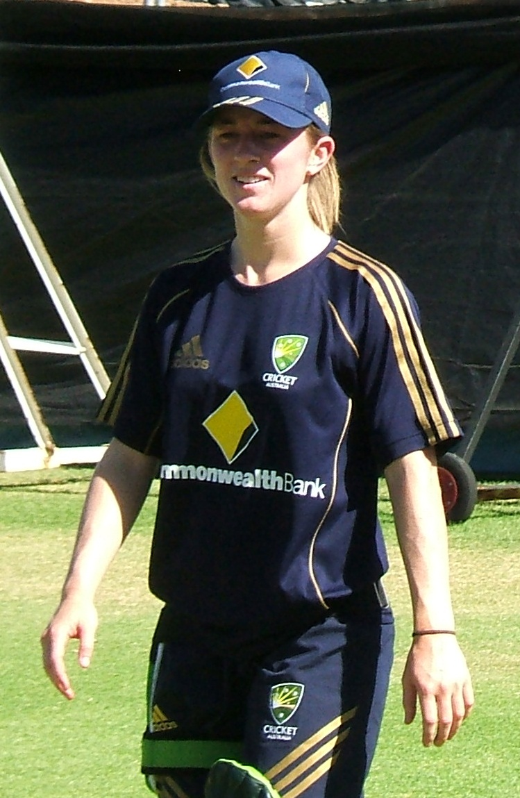 Named person engaging in named action at Adelaide Oval nets/training ground